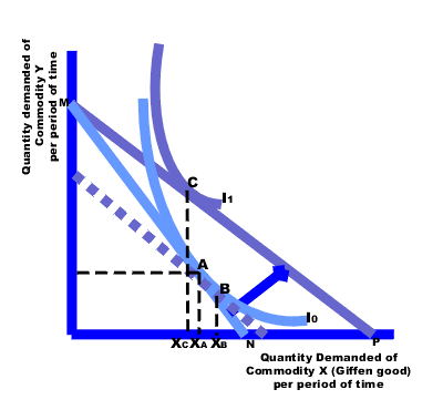 Giffen effect chart from English Wikipedia